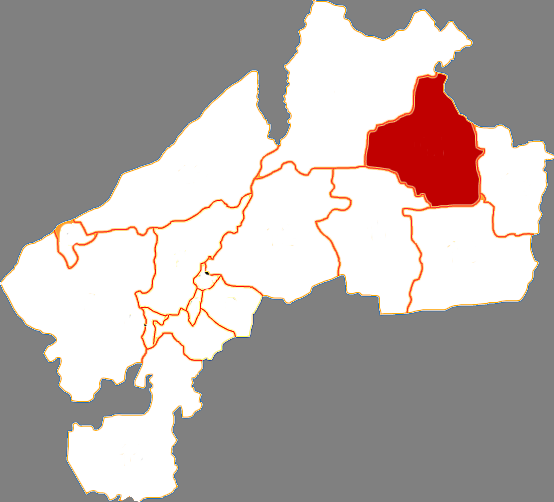 Location of Keshan County in Qiqihar City, China